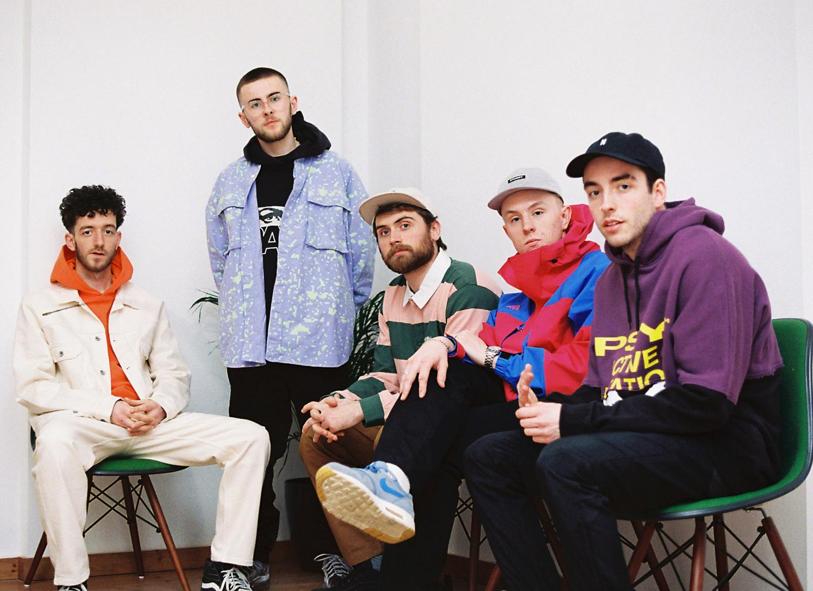 The band Template:Easy Life from Leicester